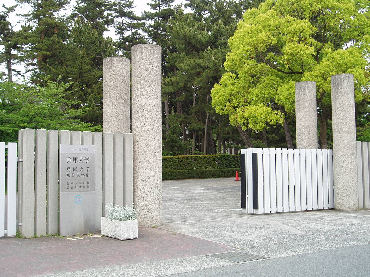 The main gate of Hyogo University. Located in Kakogawa City, Hyogo Pref., Japan.